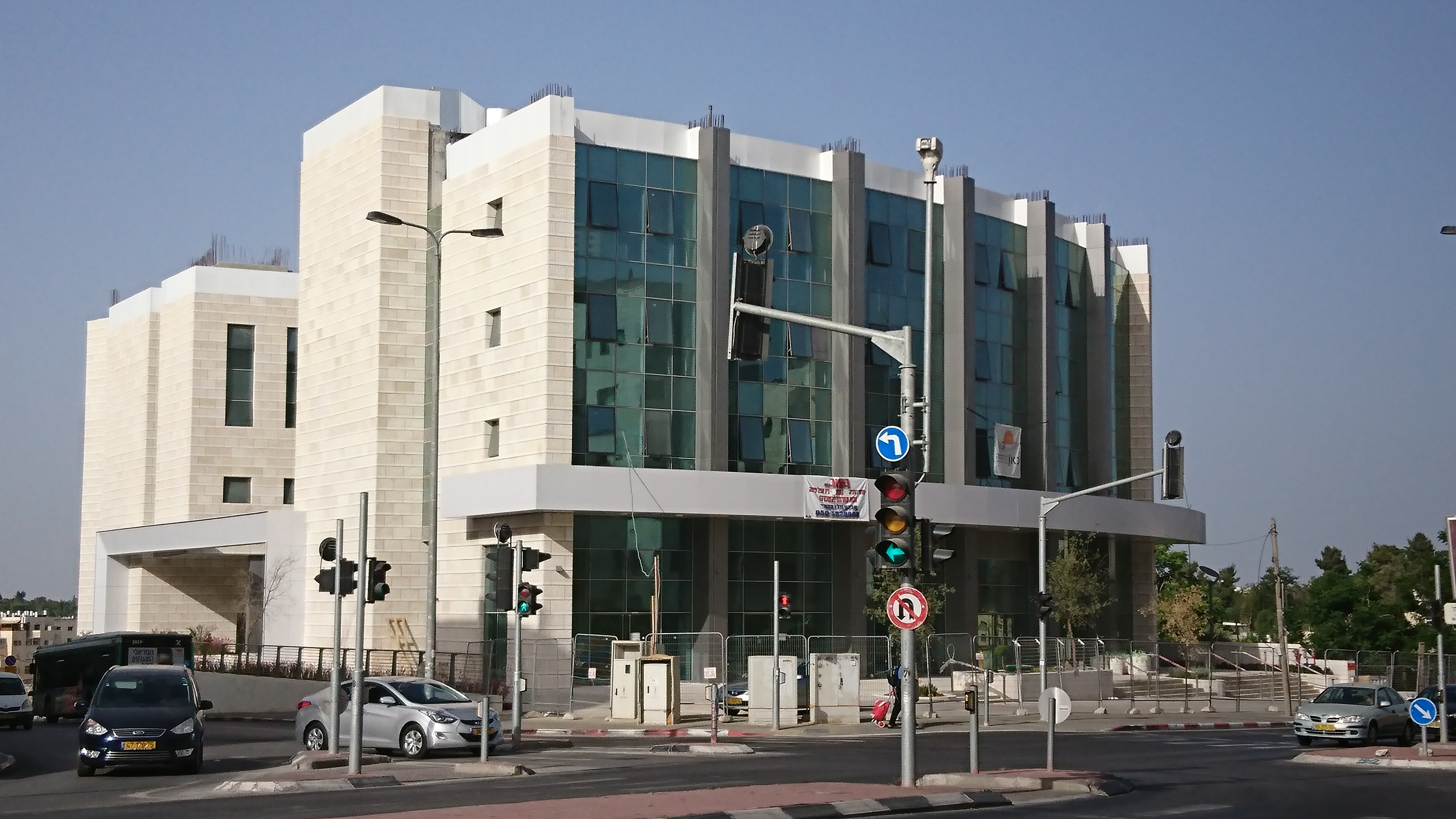 Main Building of Israel Broadcasting Corporation in Jerusalem